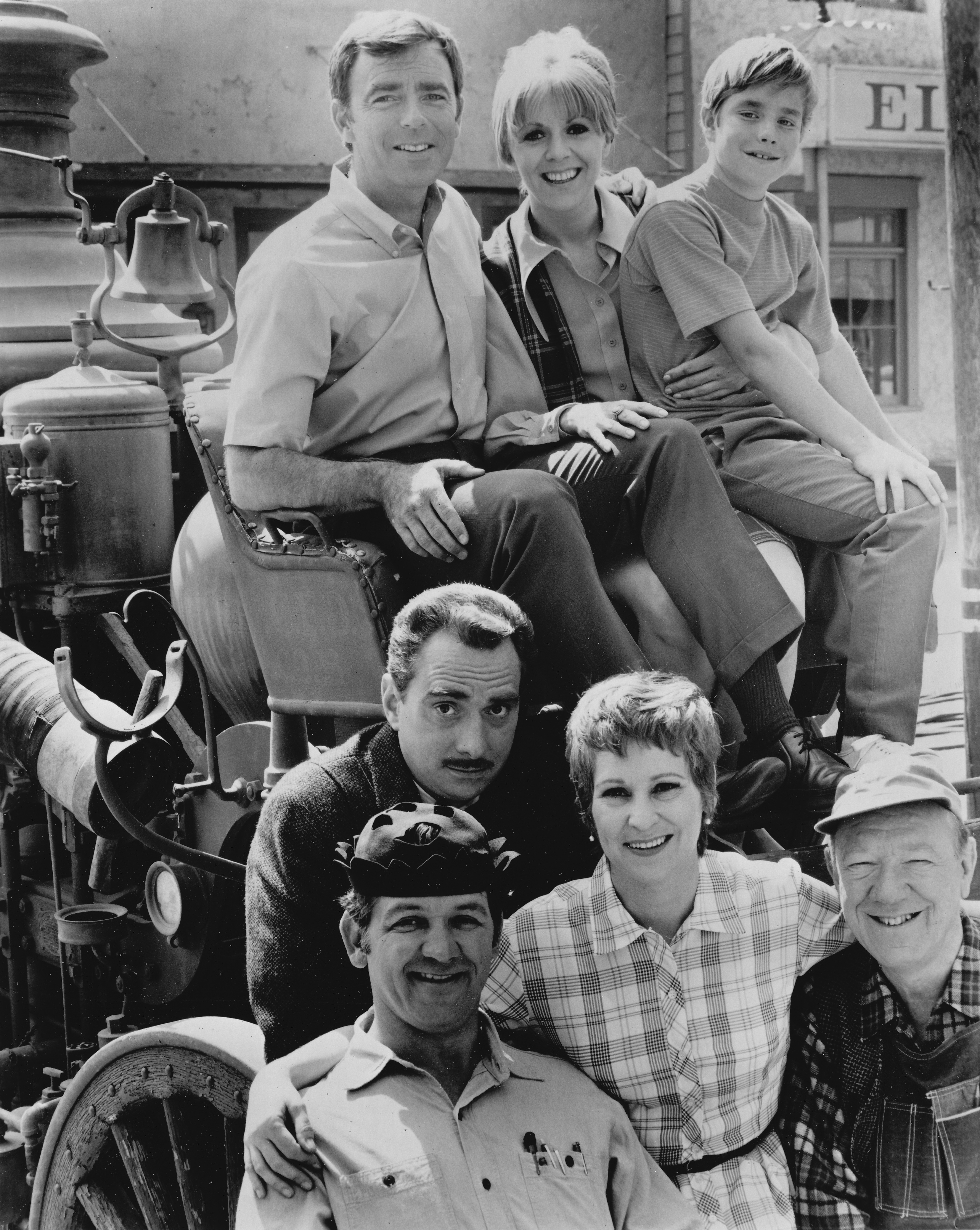 Publicity photo of American actors, (top row; seated in fire engine; L–R) Ken Berry, Arlene Golonka, Buddy Foster, (front row; L–R) George Lindsey (in hat), Jack Dodson, Alice Ghostley and Paul Hartman, promoting the CBS television series Mayberry R.F.D..